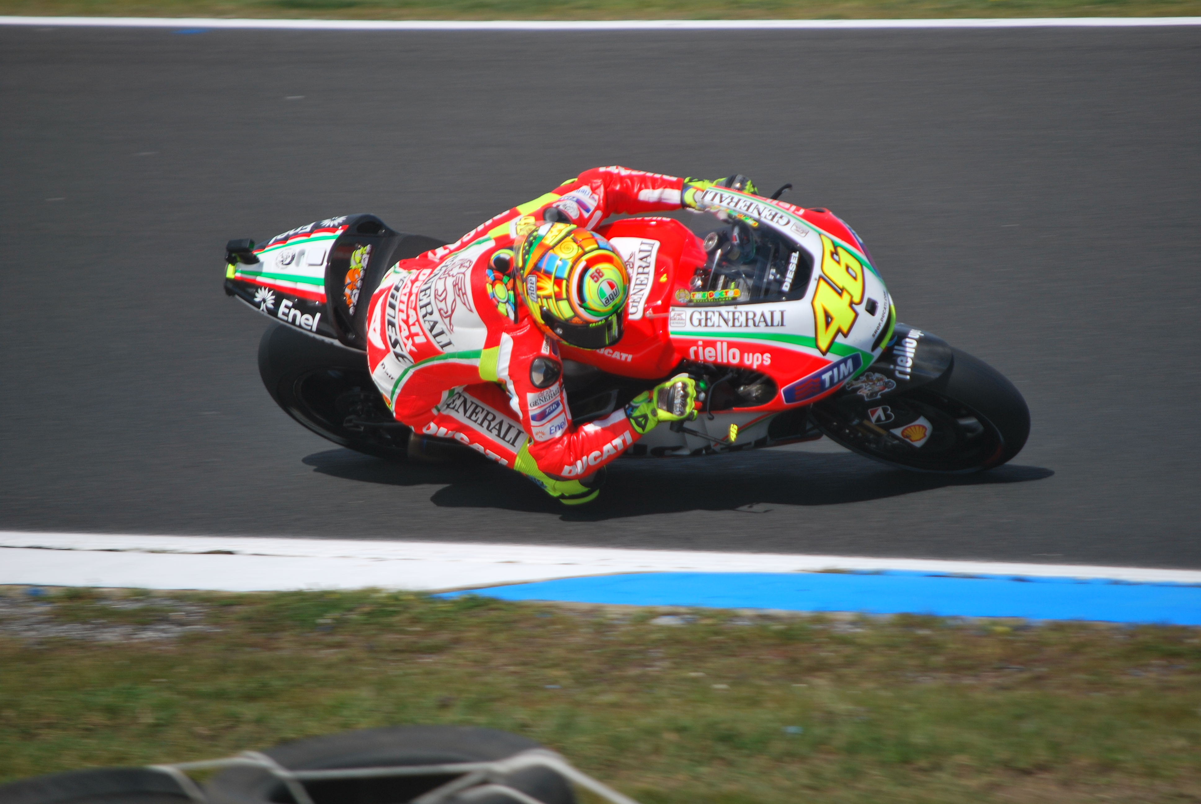 Valentino Rossi during 2012 Australian motorcycle Grand Prix